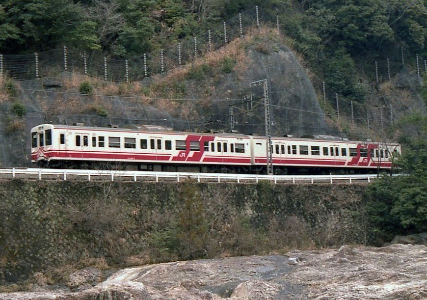 JR Central 119 series EMU in "Suruga Shuttle" livery between Yuya-onsen and Mikawa-Makihara stations on the Iida Line